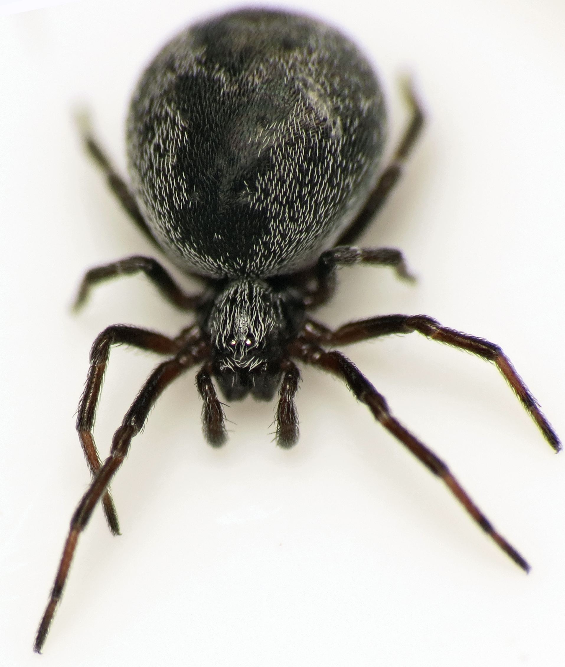 Dictyna latens (female) Small (3.5 mm) black hairy spider found in a web on a bramble leaf in a hedge near Martlesham Recreation Ground (E Suffolk, TM253473) on 9 June 2015.